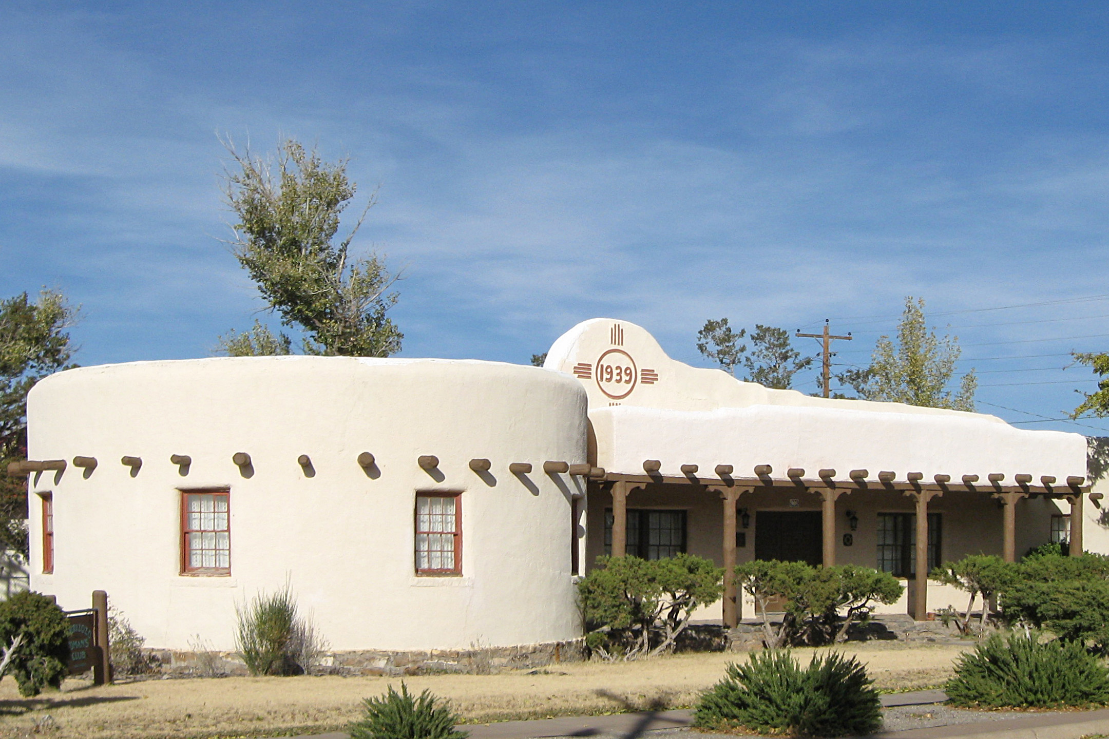 Carrizozo Woman's Club, located at 908 Eleventh Street in Carrizozo, New Mexico. According to a plaque on the front of the building, it is a Works Progress Administration building constructed in 1939. Listed on the National Register of Historic Places, NRIS Item No. 03000995. Listed as a Registered Cultural Property of New Mexico, SR 1833.